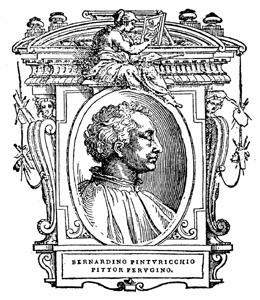 Illustratio from "Le Vite" by Giorgio Vasari, edition of 1568. For the artist portrayed see filename